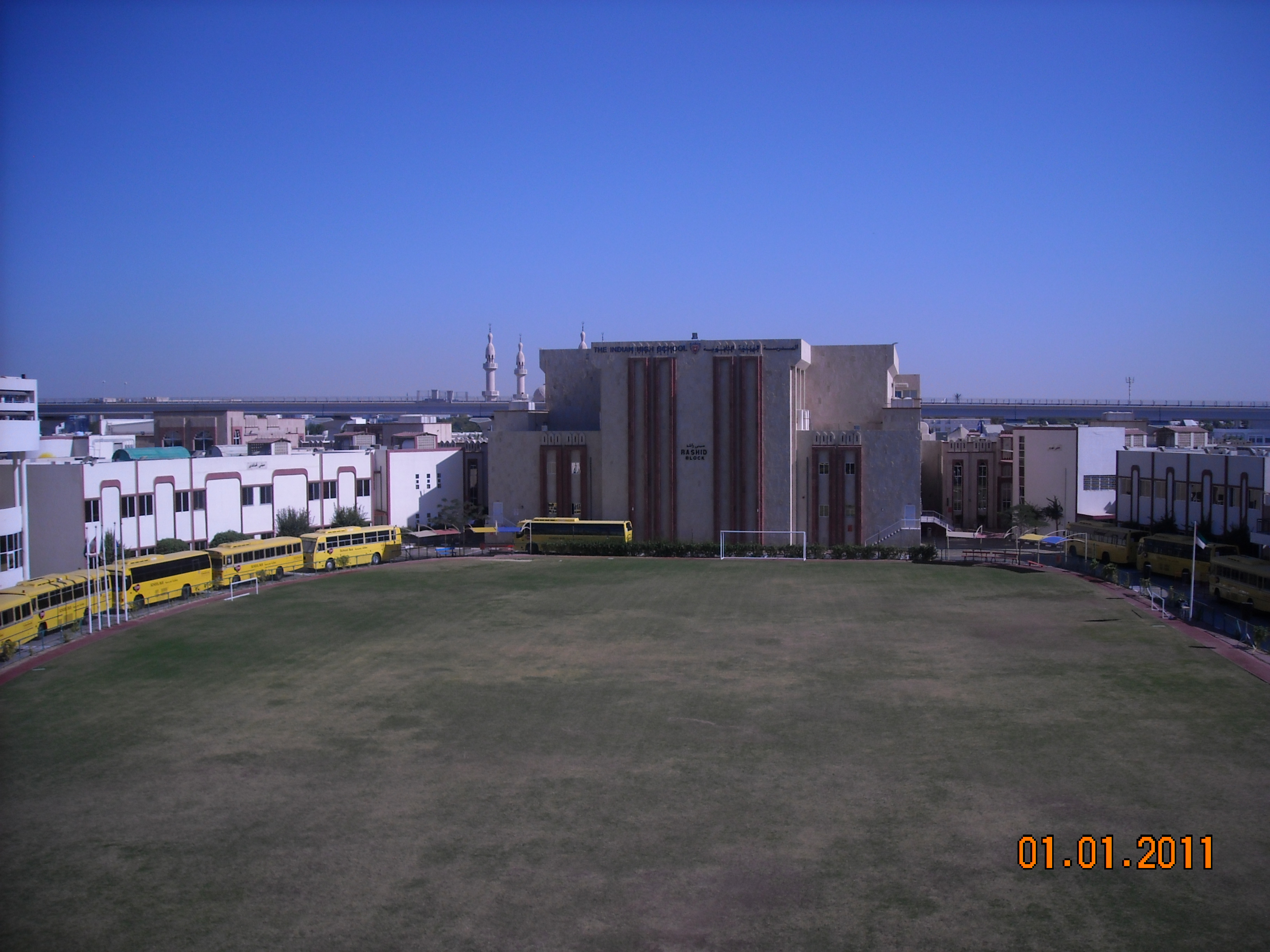 The Indian High School is one of the oldest schools in Dubai, and has won several recognitions